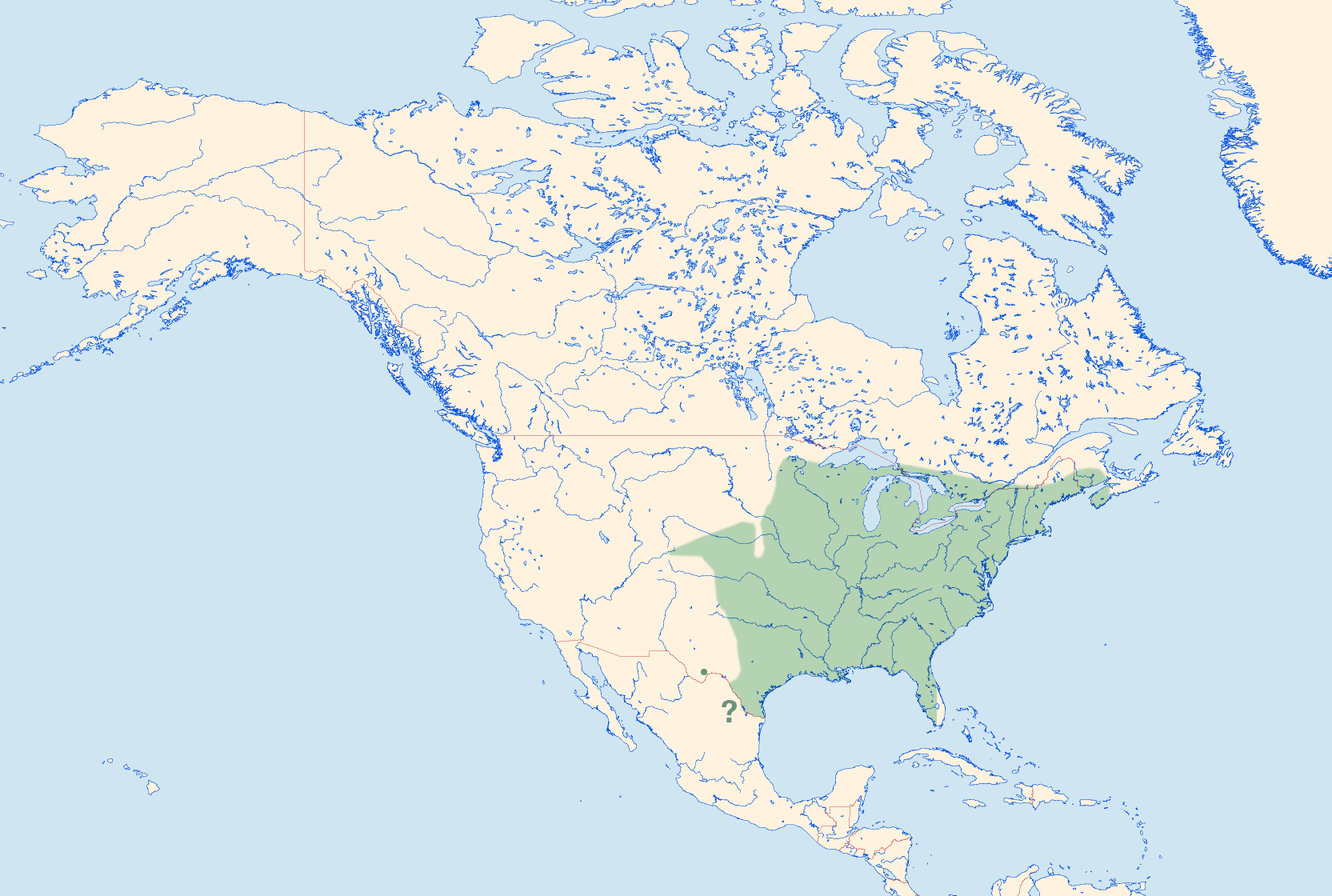 Distribution of Orange Bluet (Enallagma signatum). Data Sources (In case of discrepancies in the map source the youngest in each data source was used): Dennis Paulson: Dragonflies and Damselflies of the East, Princeton Field Guides, Princeton University Press, New Jersey 2011, ISBN 978-0-691-12283-0. Dennis Paulson: Dragonflies and Damselflies of the West, Princeton Field Guides, Princeton University Press, New Jersey 2000, ISBN 978-0-691-12281-6. John C. Abbott: Damselflies of Texas: a field guide, University of Texas Press, Austin 2011, ISBN 978-0-292-71449-6.